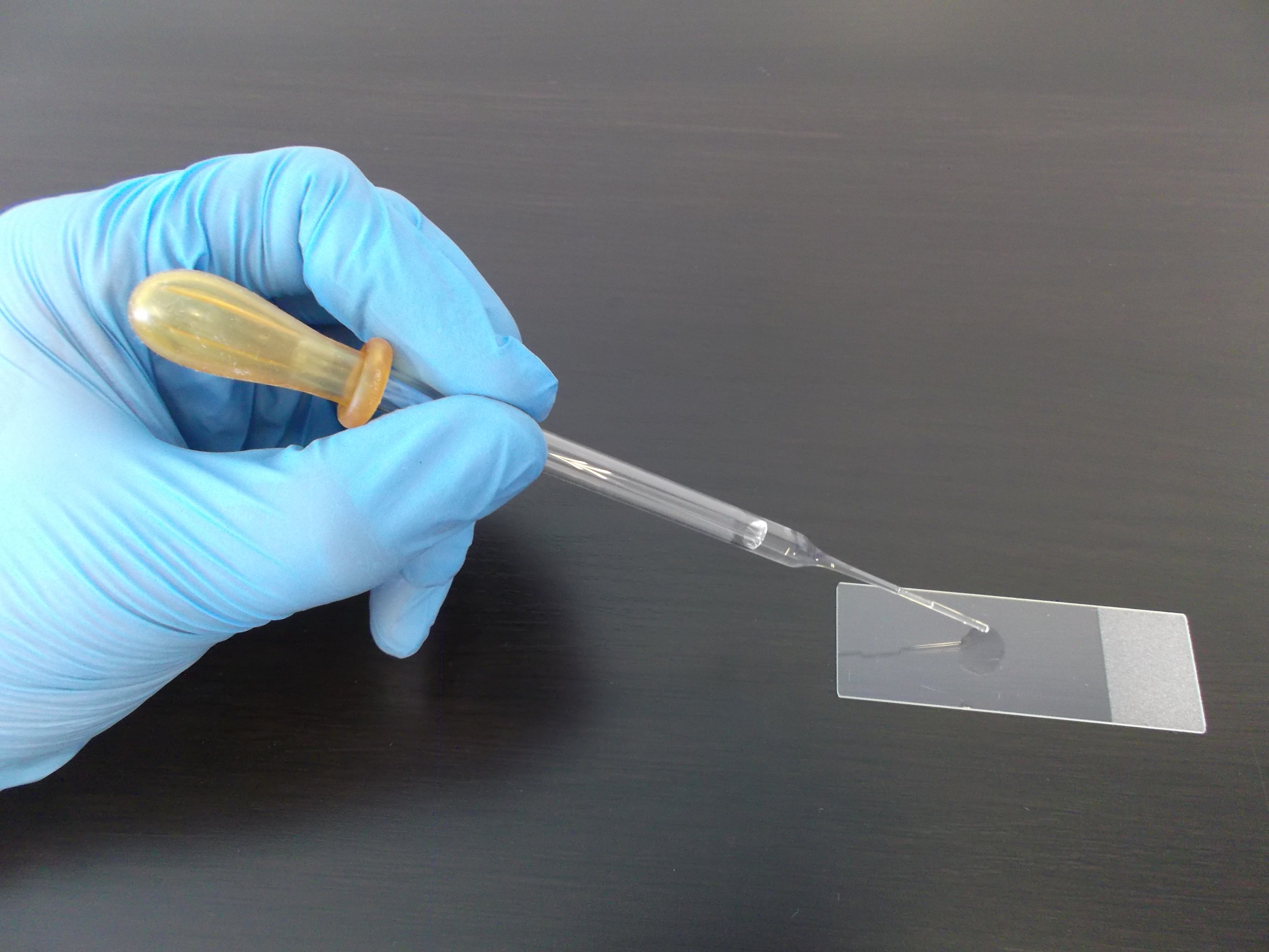 Pasteur pipette English | polski | +/−